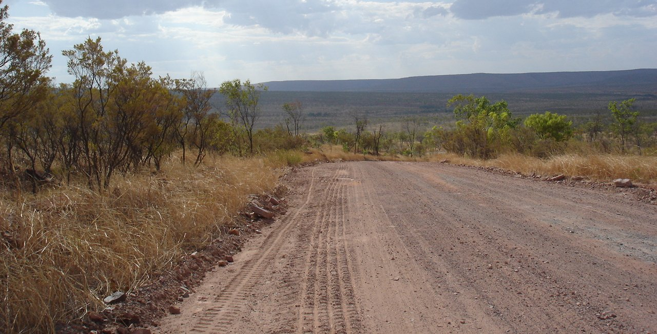 Gibb River Road. Driving on the Gibb River Road, Western Australia, Australia.